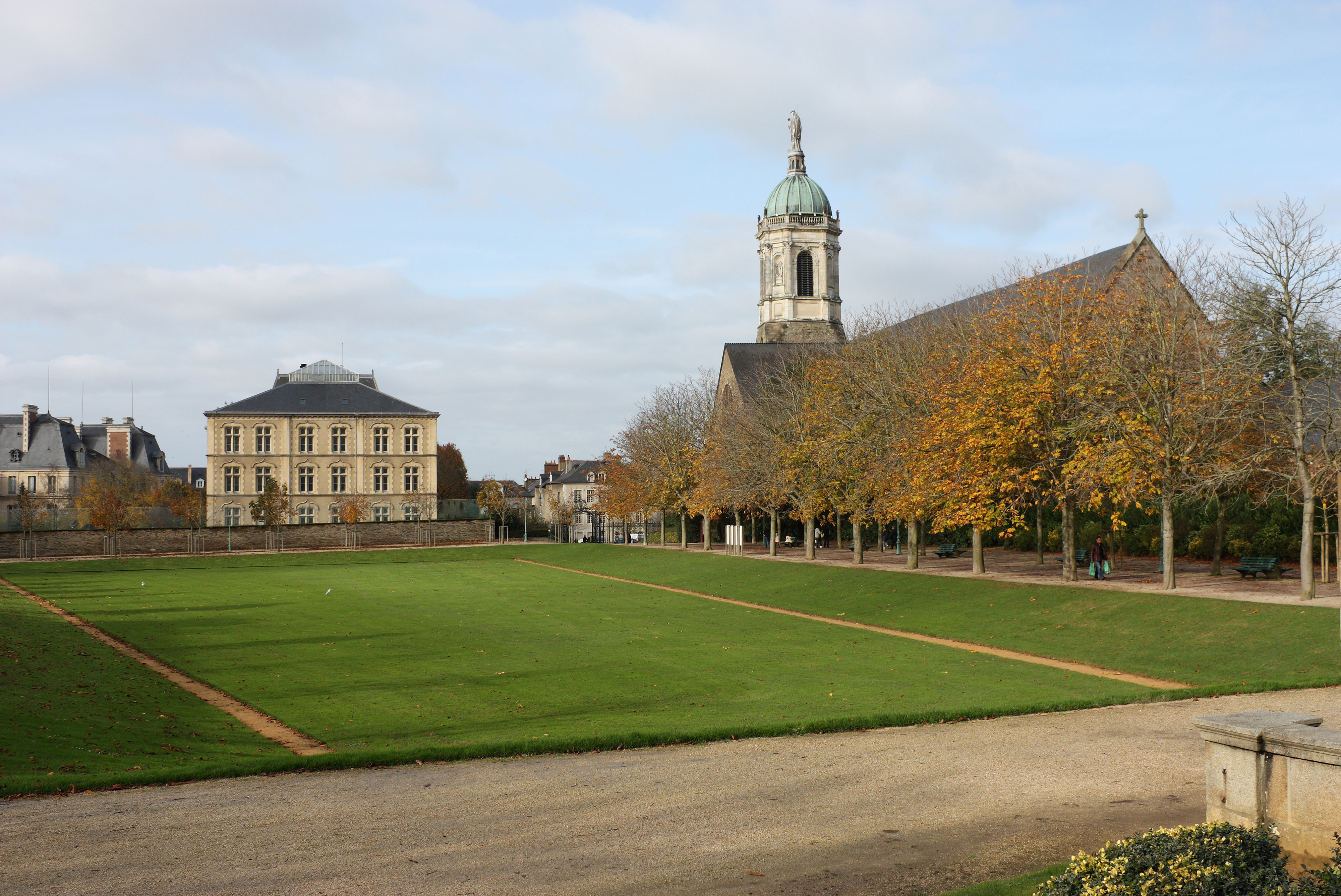 The Thabor park and church Saint-Melaine in Rennes.